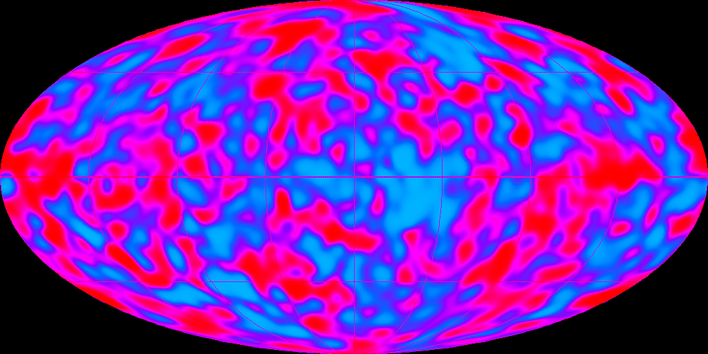 Temperature of the Cosmic Microwave Background (CMB) radiation spectrum as determined with the COBE satellite during the first two years of the Differential Microwave Radiometer (DMR) observation. The plane of the Milky Way Galaxy is horizontal across the middle of each picture. In this map, the dipole due to the solar system movement has been removed, as well as the radiation of our own galaxy. Note: This map is based on data collected over the two first years of the four-year COBE mission. Therefore, it has been superseded by the four-year map.